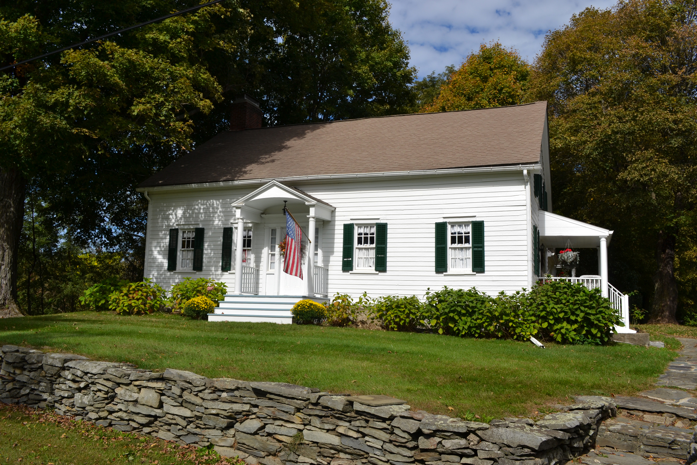 Quaker Lane Farms Farmhouse, Hyde Park, NY. Southern (front) elevation